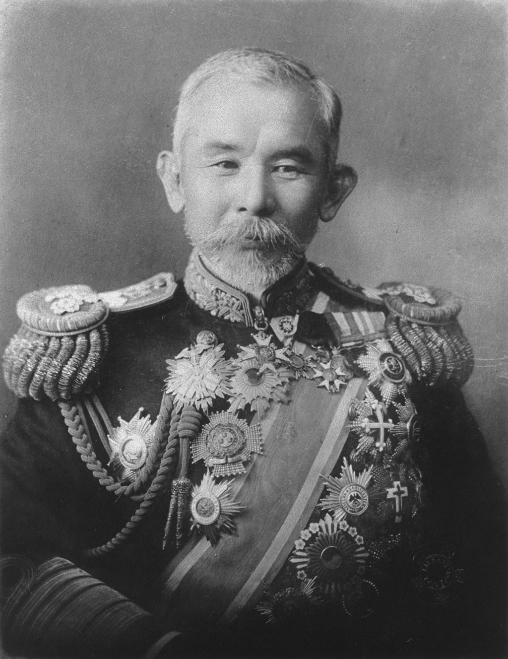 Portrait of Ijuin Goro (伊集院五郎, 1852 – 1921)